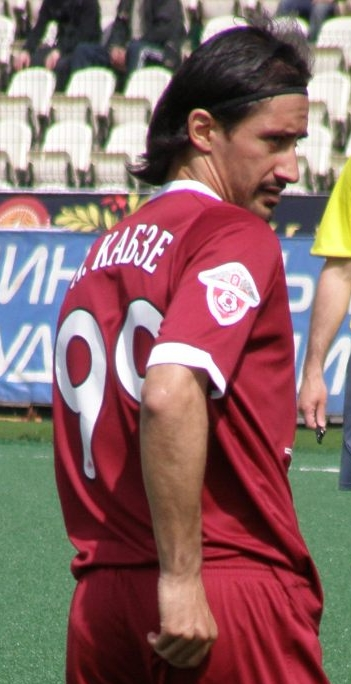 Hasan Salih Kabze in action for FC Rubin